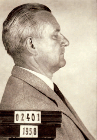 Karel Rameš (1911 - 1981) was the Protectorate imprisoned in Pankrác prison in Prague; he organized illegal exchange of messages between the prison cells and even out of prison; after the II WW, he published a book (his prison diary), as a historical witness to the life of political prisoners on death row to await execution by guillotine in Pankrac prison. In the fifties of the twentieth century, was Karel Rameš convicted by the communist regime. He was arrested and imprisoned for alleged treason. He died in obscurity.